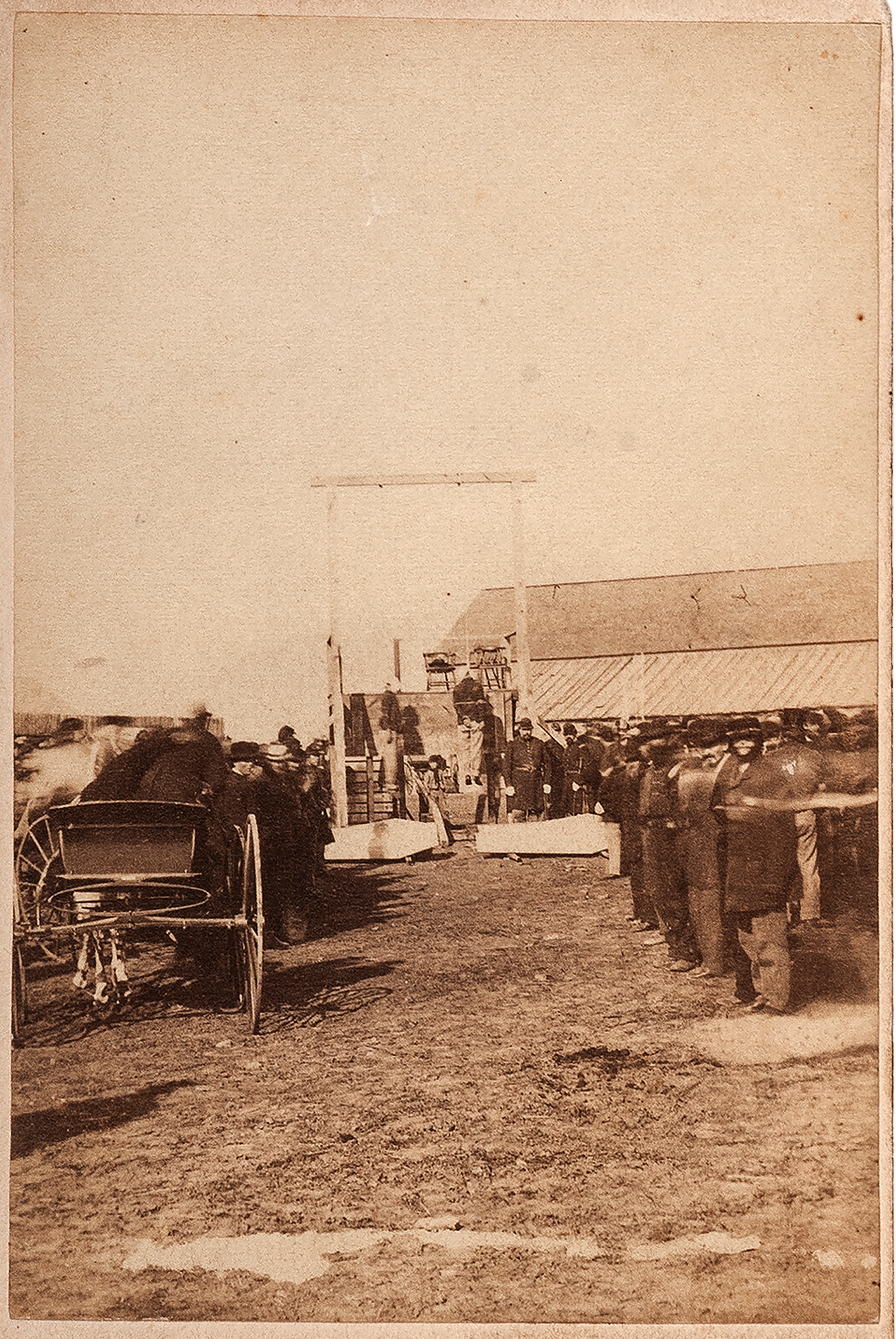 Photograph of Little Six and Medicine Bottle swinging from the gallows at Fort Snelling. The Minnesota Massacre in August 1862 resulted in the deaths of more than 450 settlers living near the reservation. Many white settlers came to help "civilize" the Sioux and establish an Indian school. Although the government offered over a million dollars to the tribe for their land, white merchants preyed upon the trade good dependent Sioux by granting massive amounts of credit that they collected directly from the government. Tensions rose as many Sioux found themselves unable to provide for their families. One store attendant refused to take more credit and turned away starving women and children saying, "If they are hungry, they can eat grass" (Torrence, Time-Life The Old West Series, "The Minnesota Massacre: Sioux on the Warpath," p. 175). After the attack some survivors found the store owner dead with grass stuffed in his mouth. When the annual payment from the government failed to arrive on time, Wo-wi-na-pa, the son of Little Crow, and some other Dakota men led an attack against the white settlers. Among them was Little Six, the grandson of Shakopee and leader of the Mdewakanton band, and Medicine Bottle, the nephew of Chief Medicine Bottle. Little Six and Medicine Bottle fled to Canada after the massacre. In early December 1862, the military convicted 303 Sioux prisoners of murder and rape by military tribunals and sentenced them to death. Thirty-eight of the convicted hanged all at once, making it the largest hanging in American History. Medicine Bottle and Little Six evaded capture for almost two years until Major Edwin Hatch kidnapped them in January of 1864. They were put on trial with Wo-wi-na-pa and charged with war crimes. Wo-wi-na-pa managed to escape the noose, but Little Six and Medicine Bottle did not. They hanged at Fort Snelling in 1865.